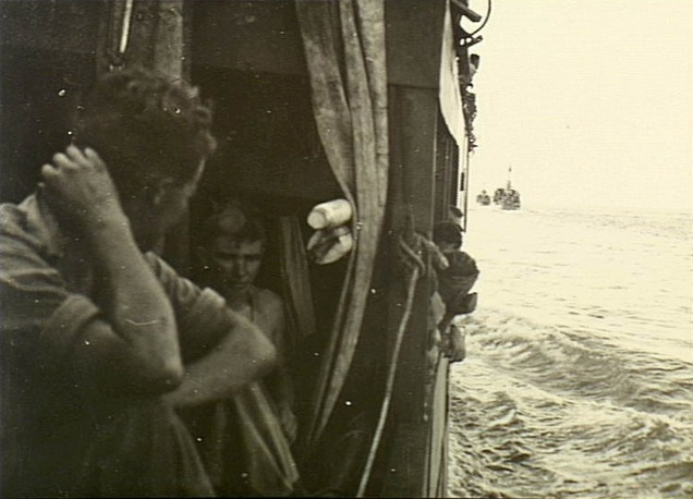 At Sea, off Papua. 1942-12-14. A photograph taken from HMAS Broome, with Australian corvettes Ballarat and Colac ahead, all three ships heading towards Buna to disembark AIF troops.